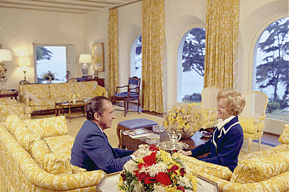 President Richard and First Lady Pat Nixon sit in the living room of their San Clemente, California home.